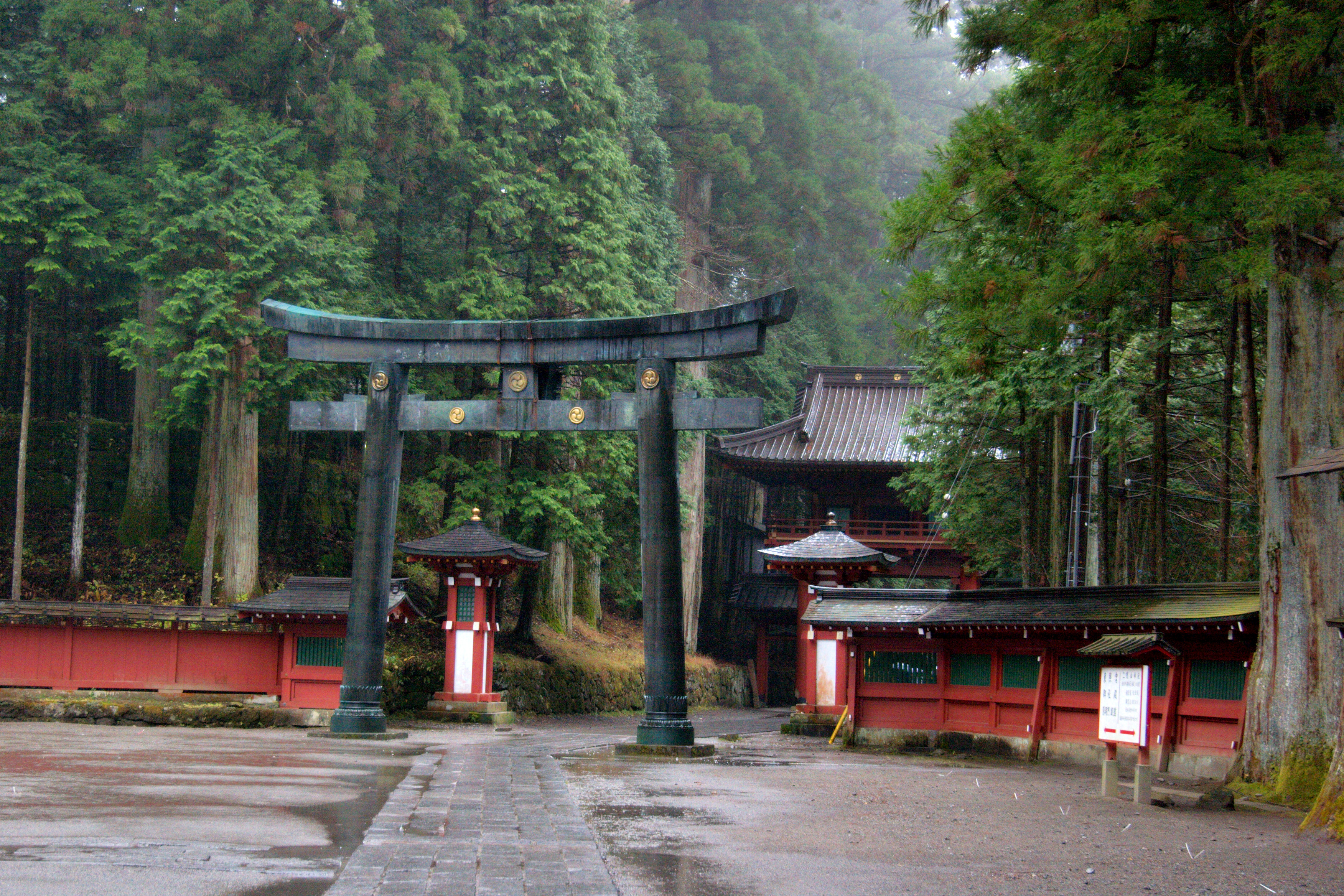 Futarasan-jinja in Nikko, Tochigi, Japan.